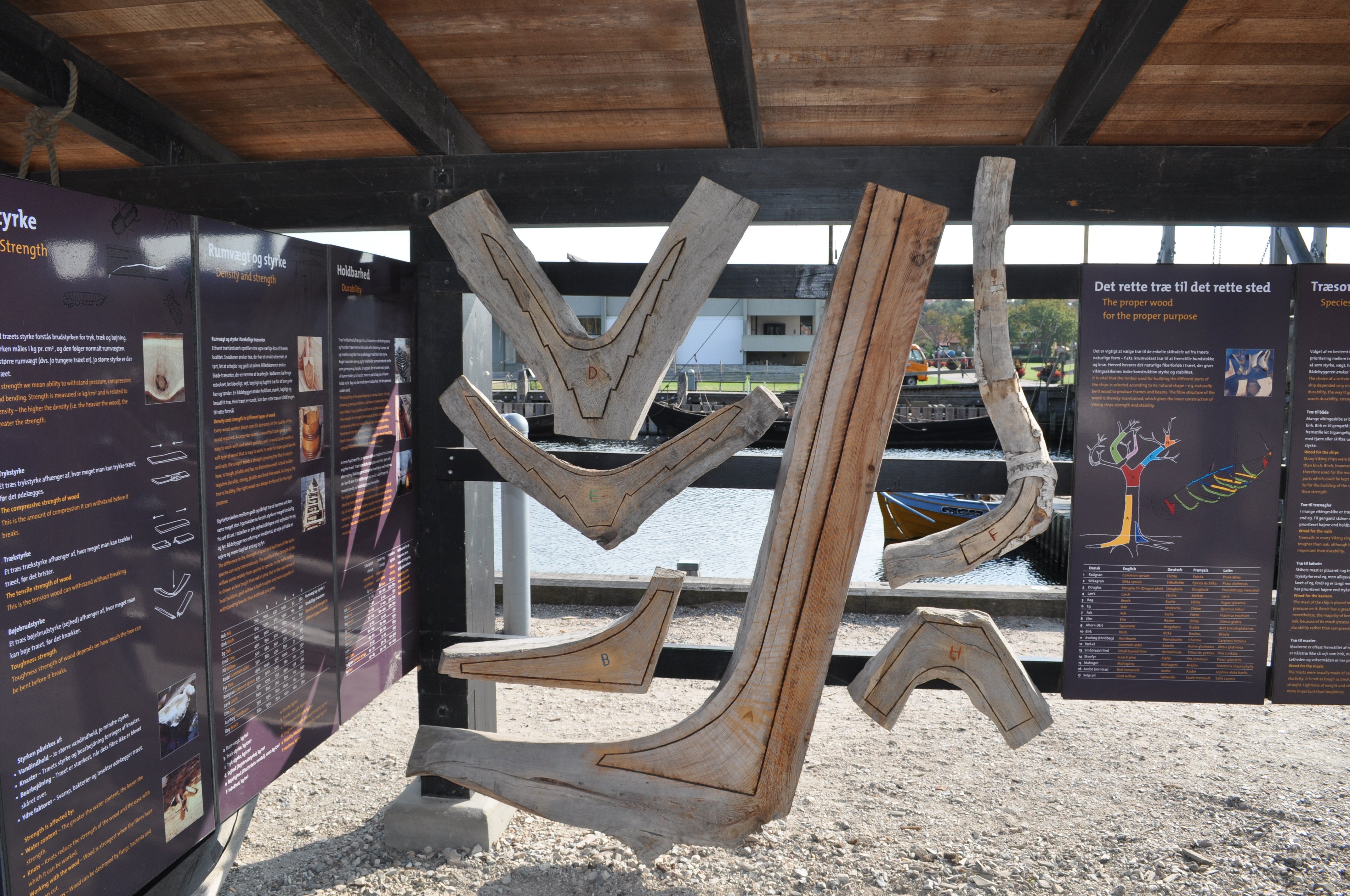 Knieholz-Bootsbau. Kneetimber - Boatbuilding. Krummvirke för båtbyggnad